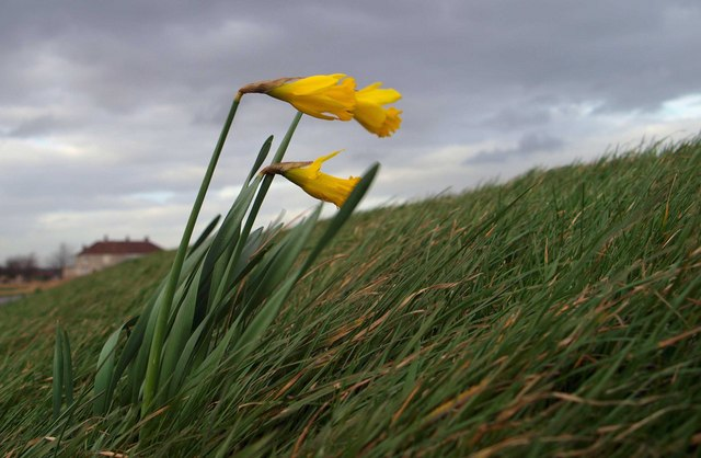 Blowing in the wind Lonely daffodils on the River Trent embankment.